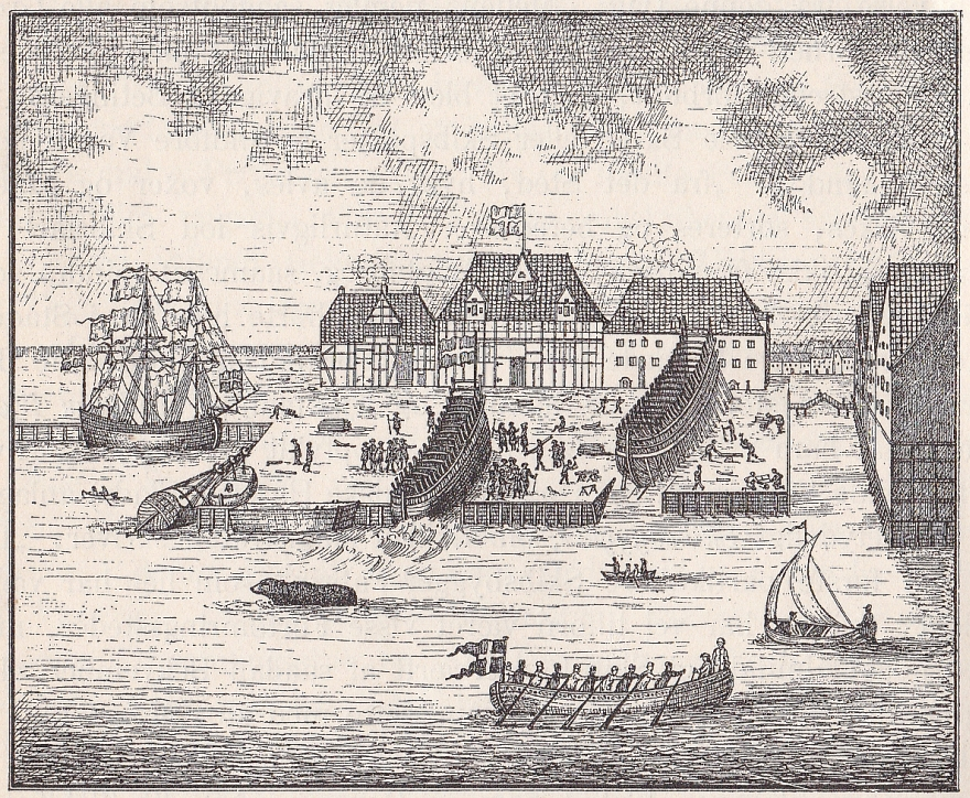 Bjørns Plads in Christianshavn, Copenhagen, Denmark